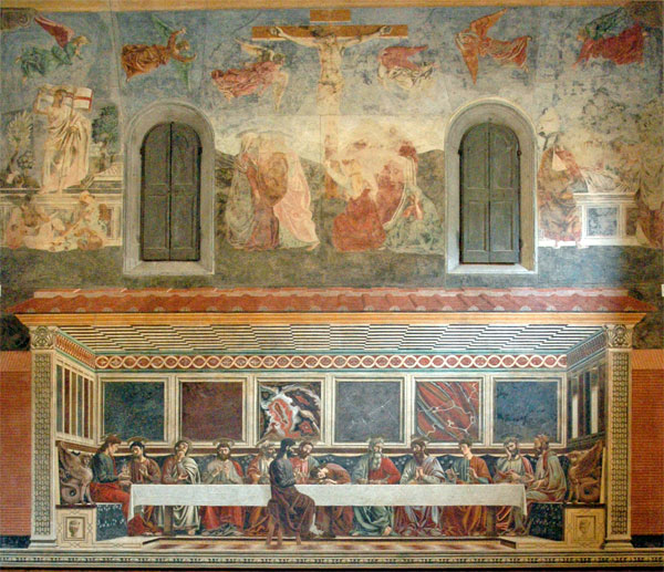 Last Supper. Andrea del Castagno. Sant’Apollonia cenacolo. Florence